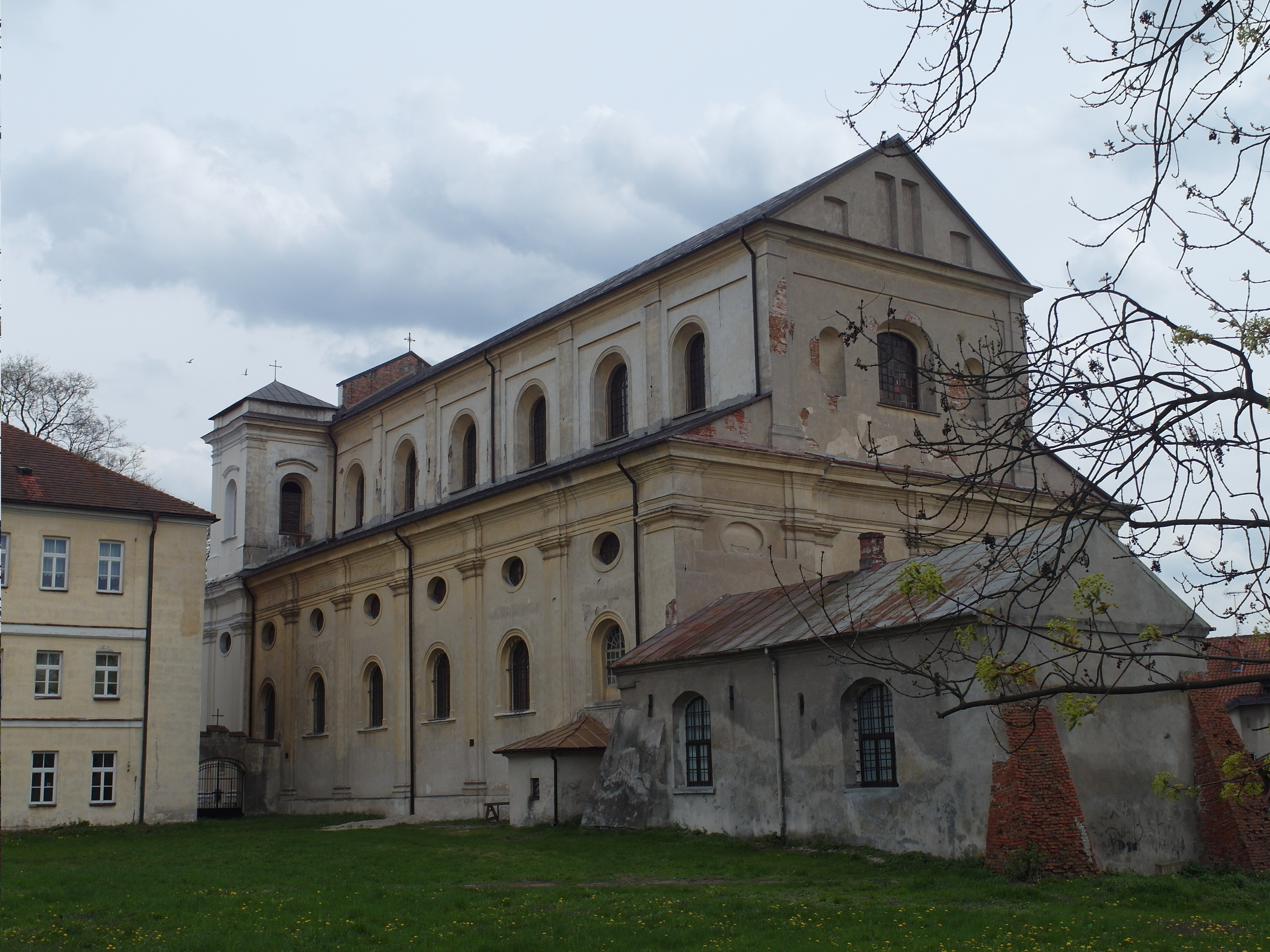 Saints Peter and Paul Church in Pułtusk